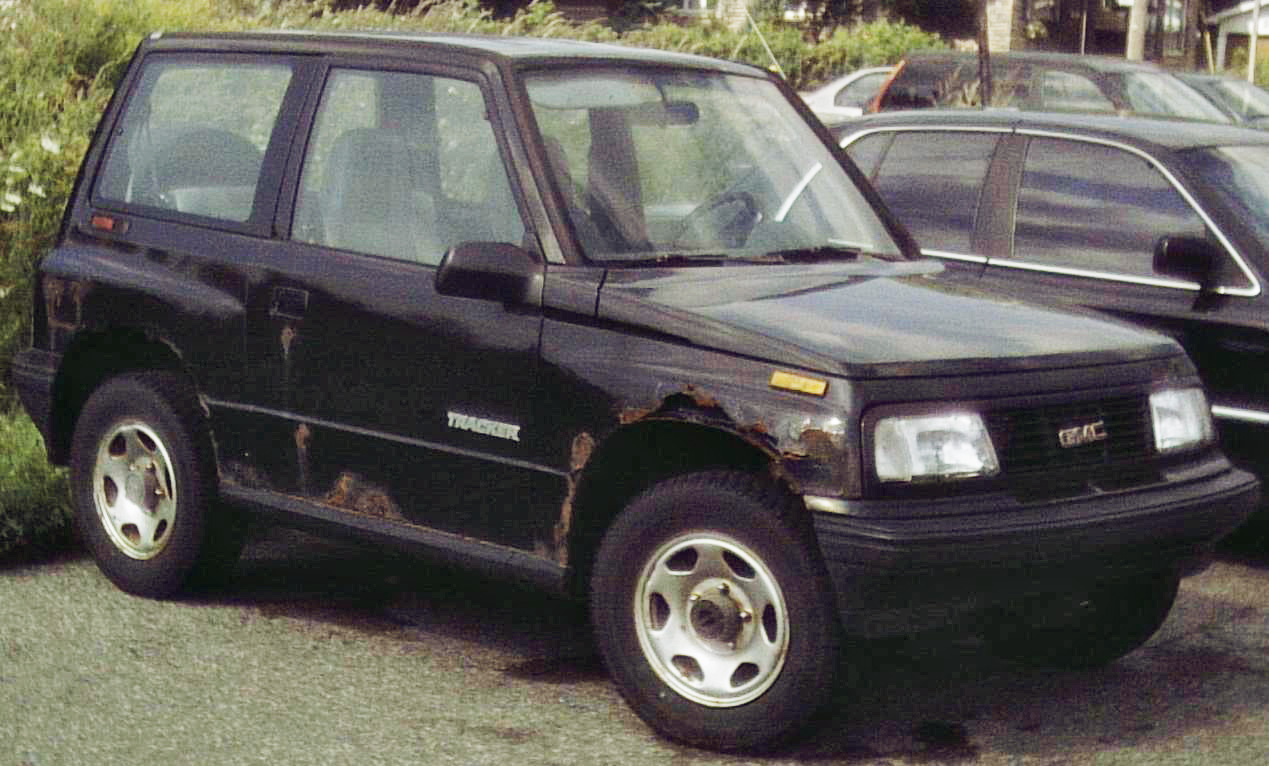 1989-1991 GMC Tracker photographed in Montreal, Quebec, Canada.